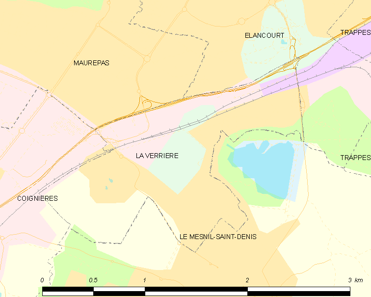 Map of French municipality La Verrière